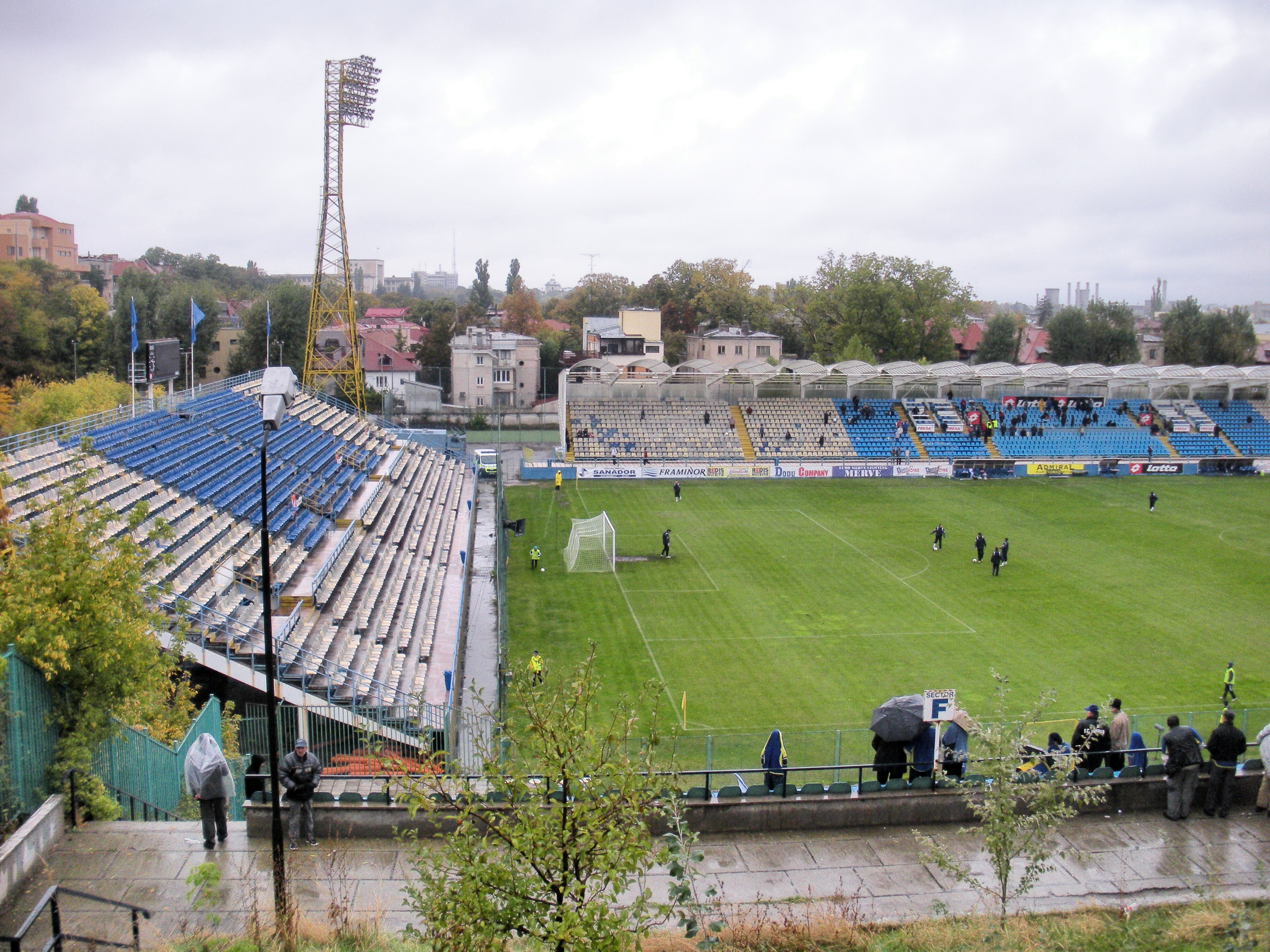 Stadium "Cotroceni" of FC Progresul Bucureşti (Bucharest / Romania)